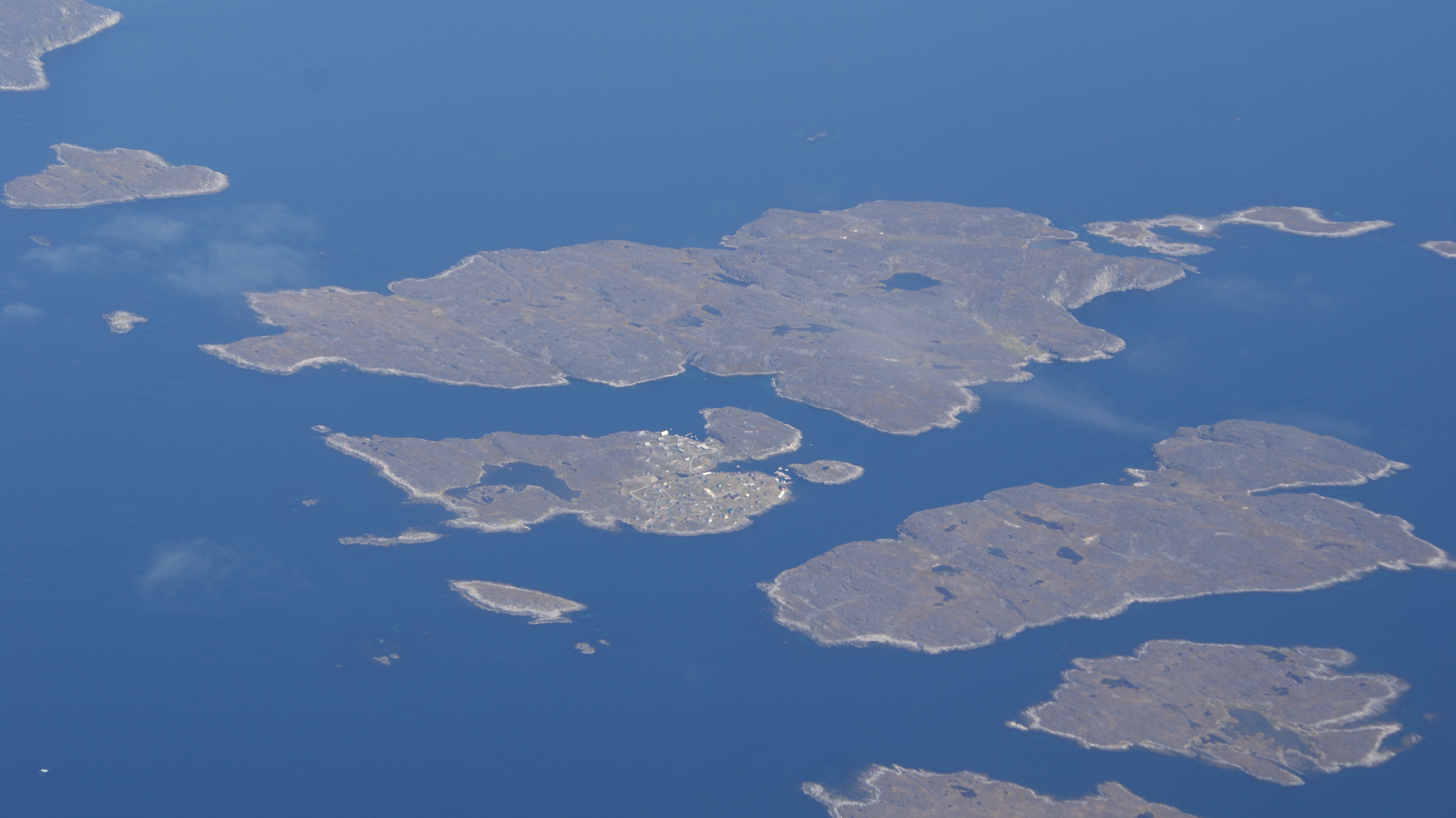 Aerial view of Napasoq, an island village in the southern part of the Qeqqata Municipality, western Greenland. Photographed from the Air Greenland de Havilland Canada Dash-7 "Sululik" during the Sisimiut-Nuuk flight.